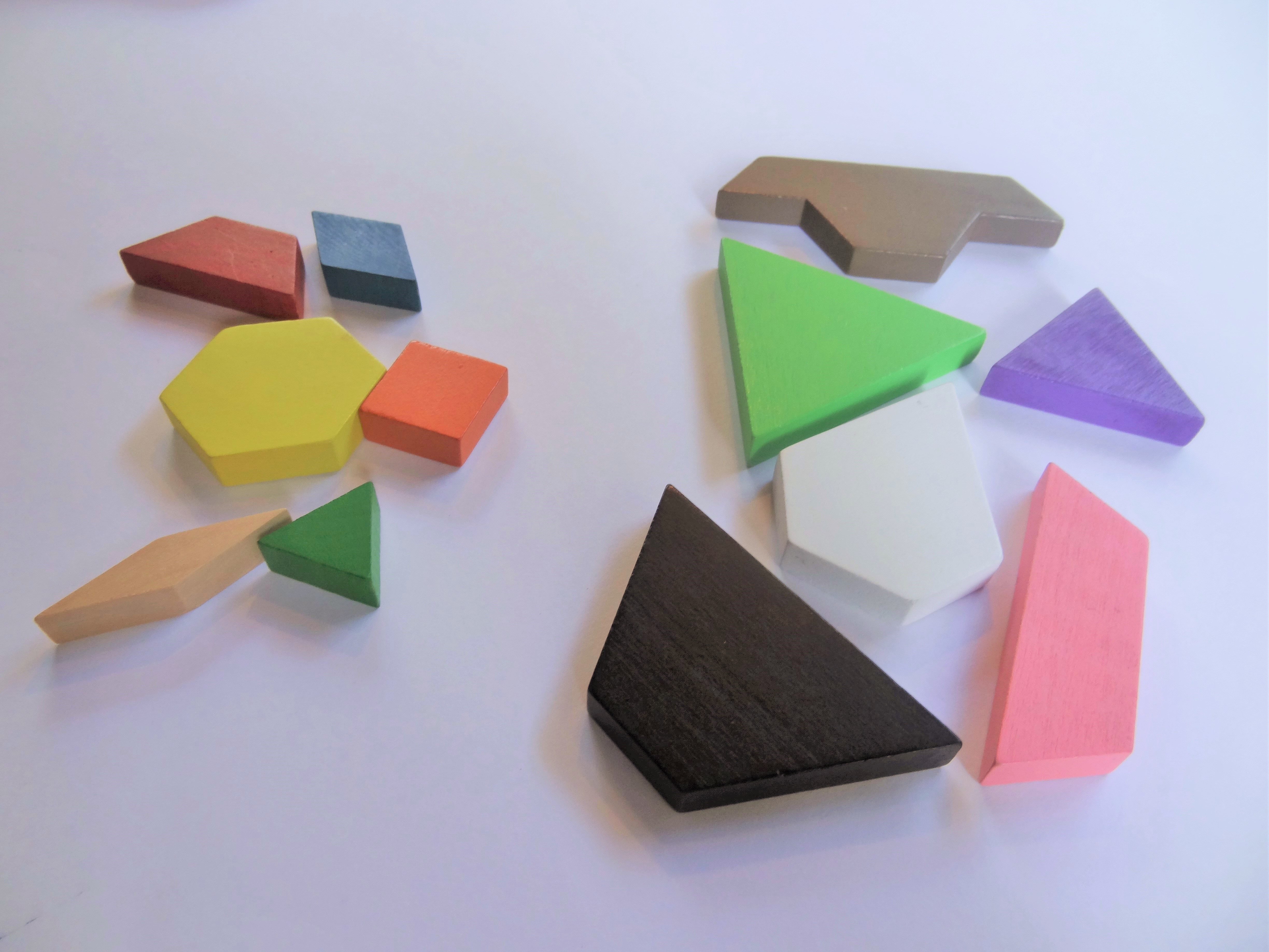 The six original pattern blocks on the left, with the six Deci-Blocks on the right, all in wood